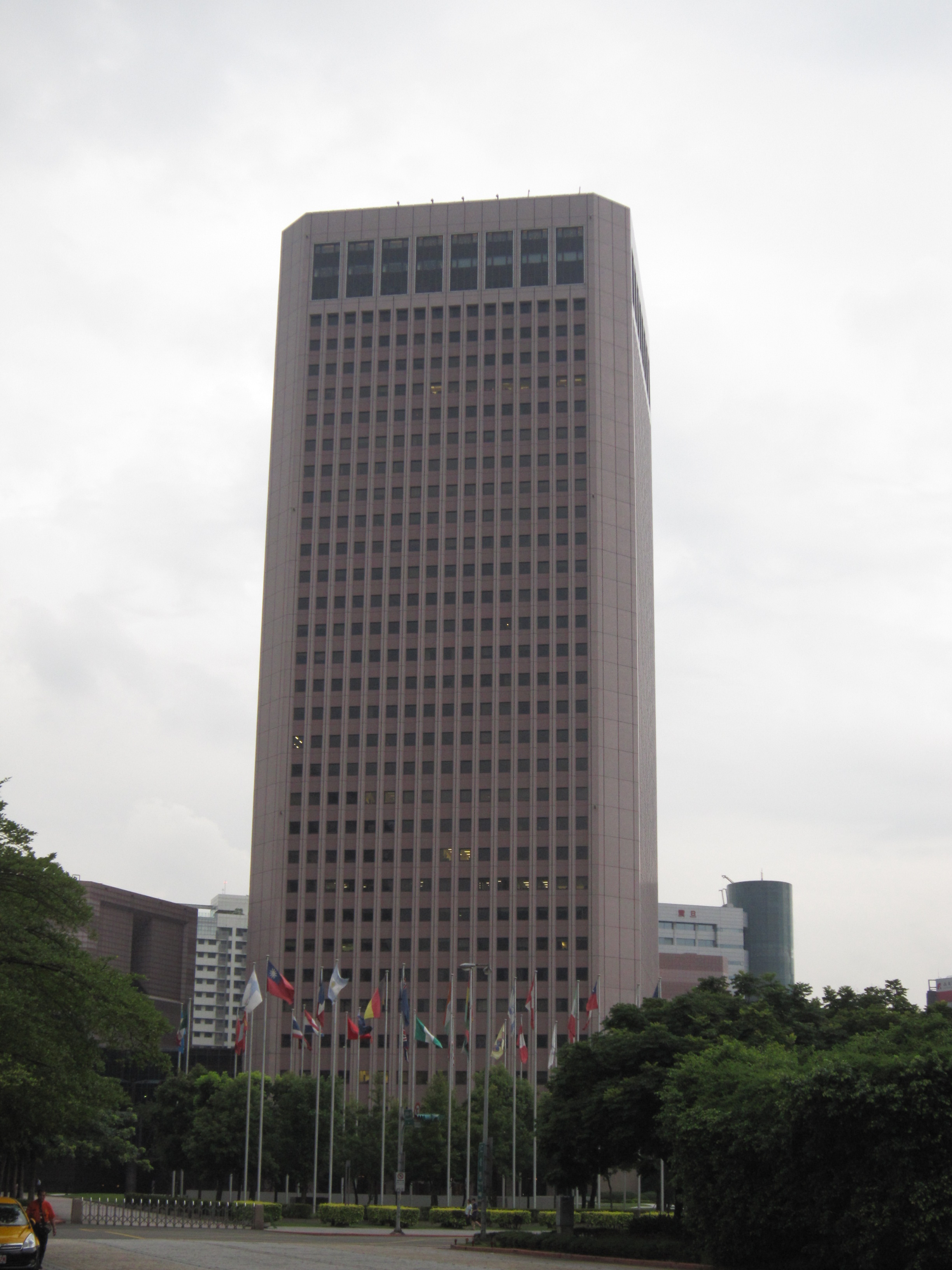 International Trade Building, Taipei World Trade Center